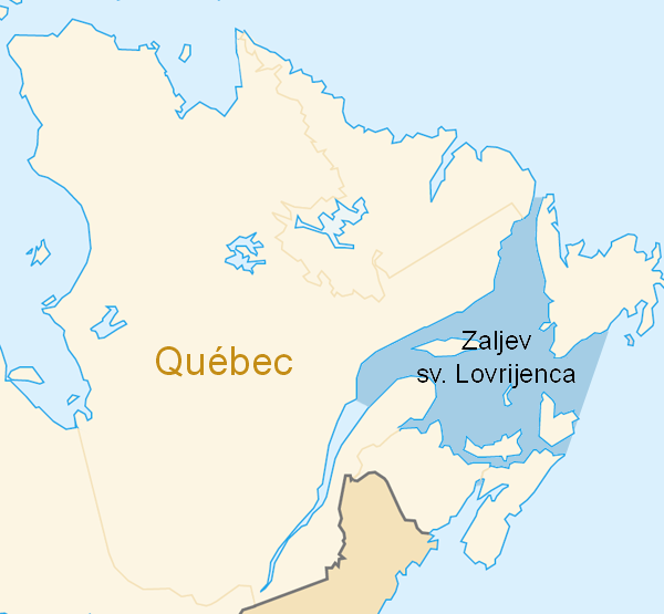 Gulf of Saint Lawrence